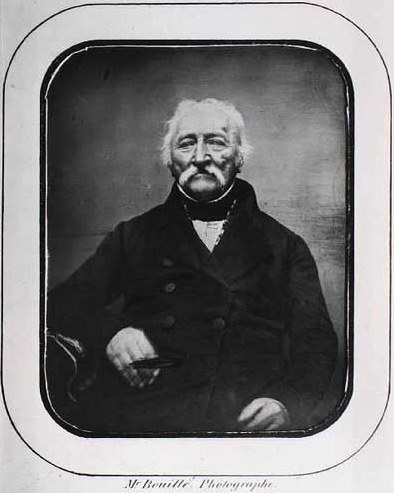 Johan Hendrik Hegermann-Lindencrone (1765-1849), Danish lieutenant general